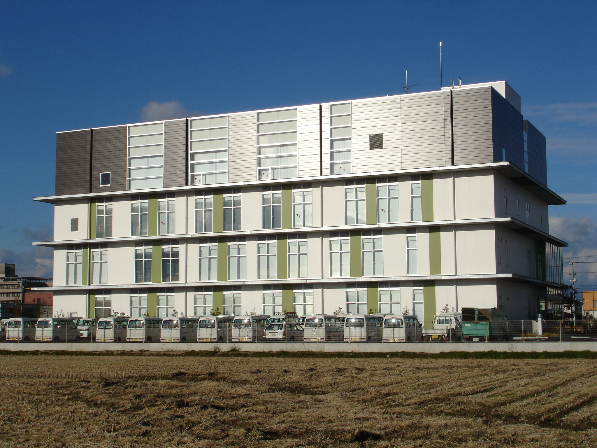 Okayama city Minami ward office